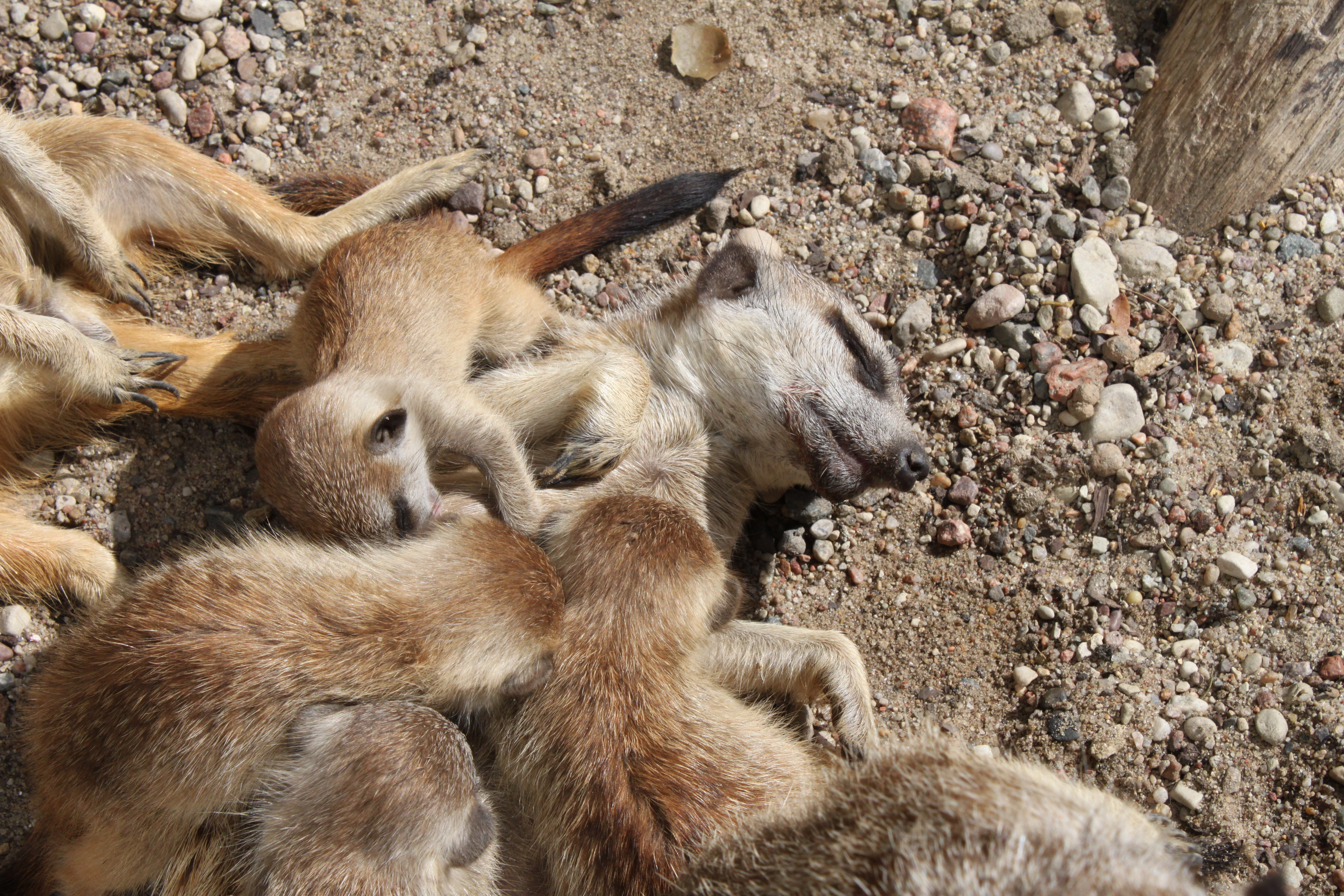 Playing meerkats (Suricata suricatta) in Oliwa Zoo in Gdańsk, Poland.